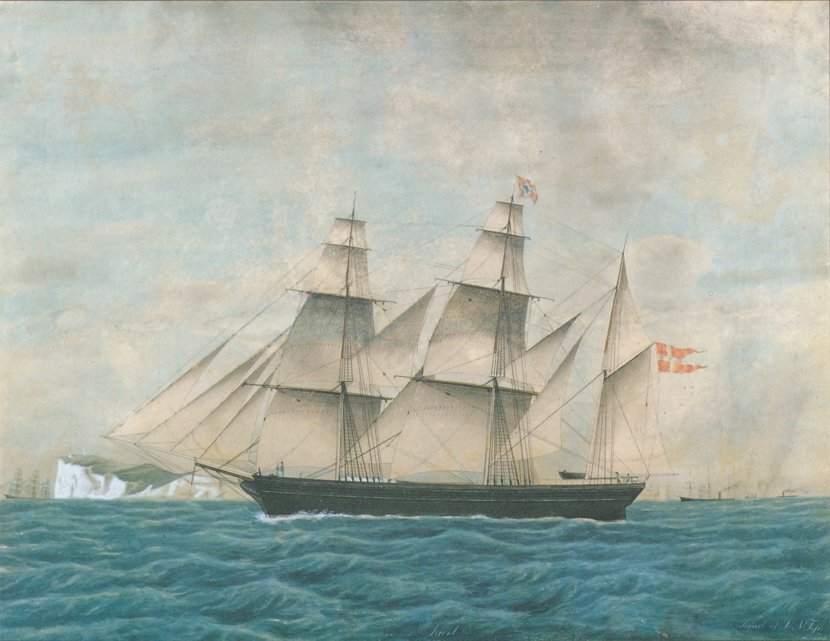 The barque Jacob of Copenhagen was built in 1839 by industrialist Jacob Holm on his own wharf. The oil painting was probably done on speculation and was never sold. Size 43 x 58 cm. Privately owned. Source: Hanne Poulsen, Danske Skibsportrætmalere, page 91 & 108.